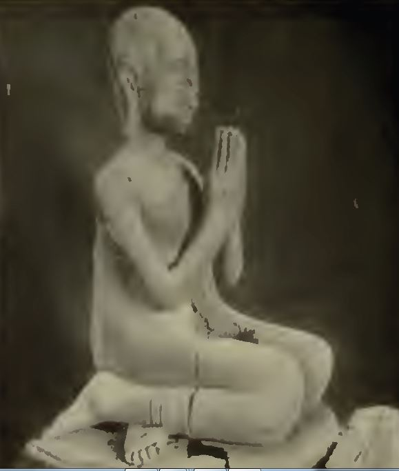 Angkor Wat wood statue of a praying monk